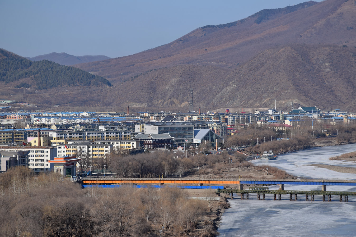 Aerial view of Tumen & Tumen River (right)